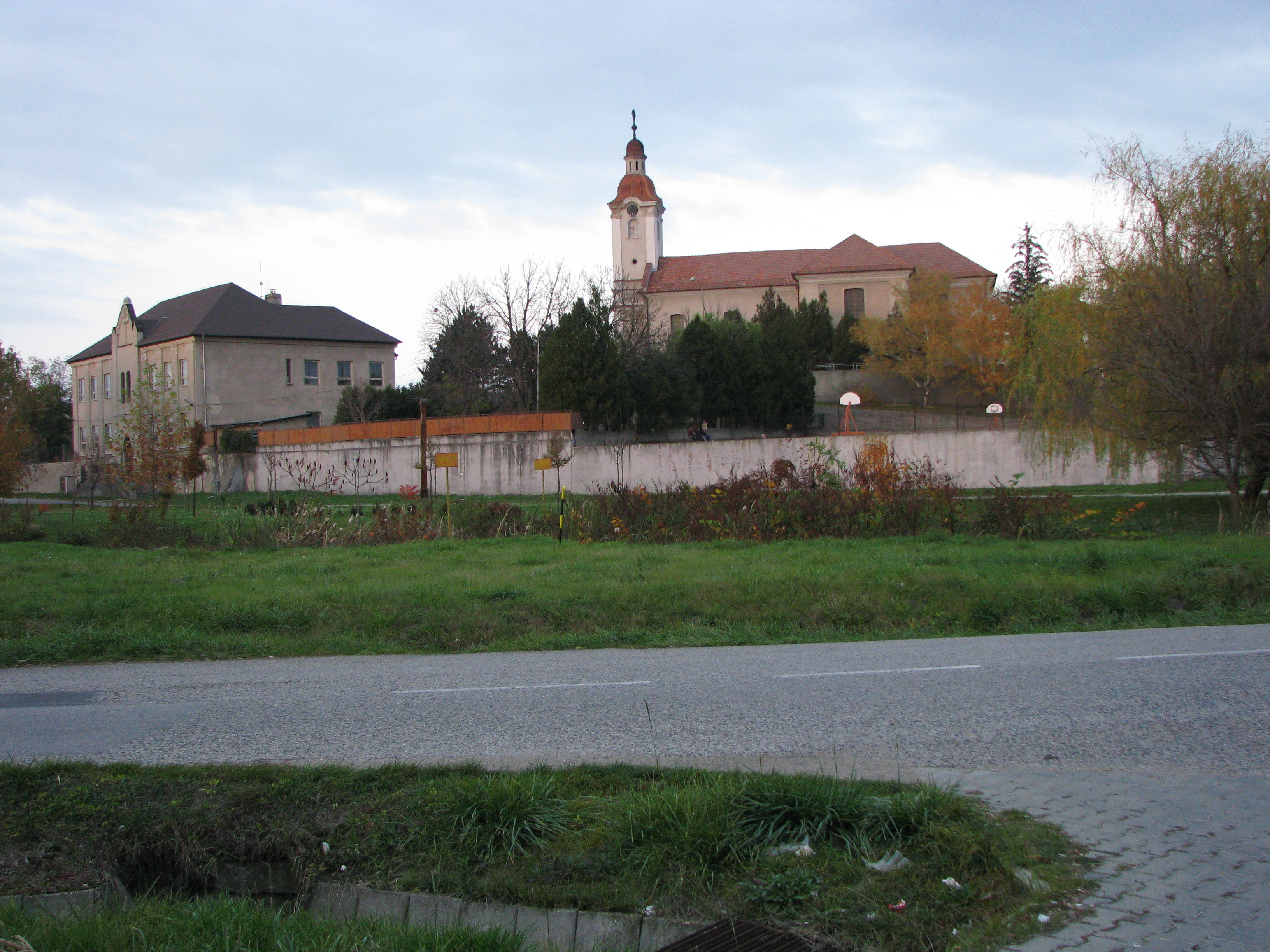 Mužla